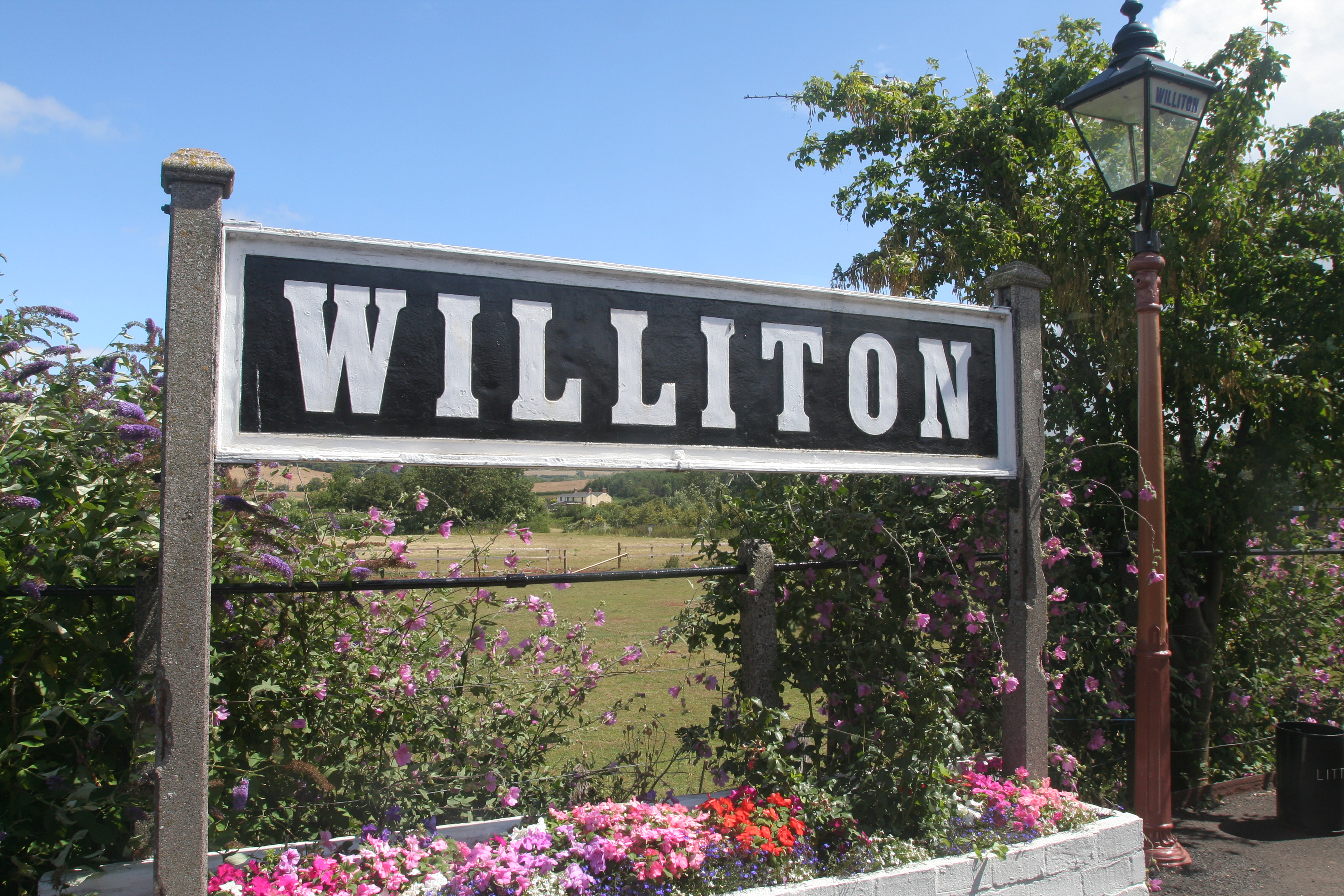 Station sign at Williton station on the West Somerset Railway. Photograph taken by Robert Kilpin. Canon EOS 350D with 16-35mm f2.8 L USM Lens. Image unaltered.